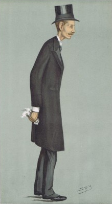 Caricature of Lord HRH Cecil. Caption read "Greenwich".